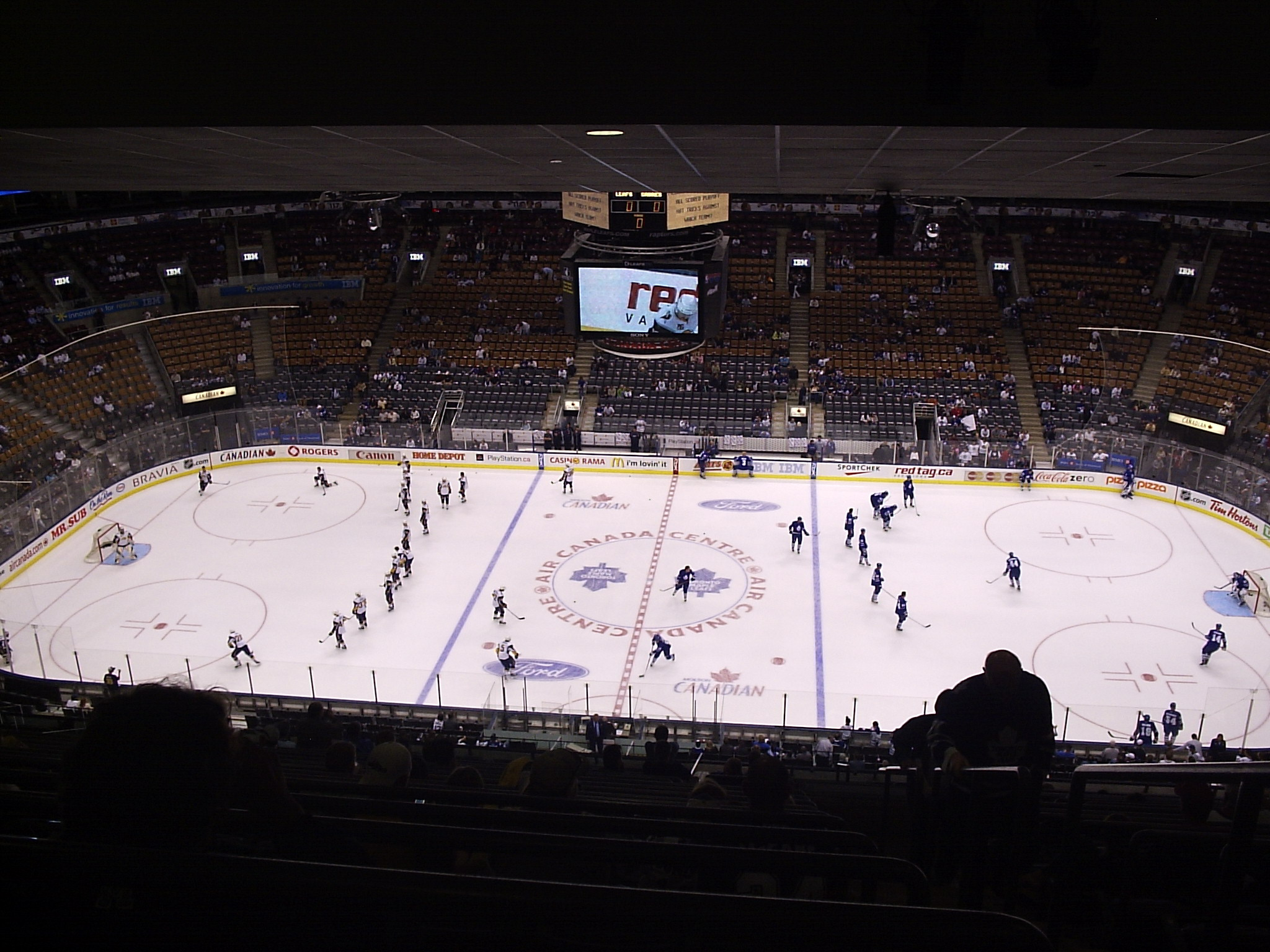 Ice hockey game at the ACCHockey Players